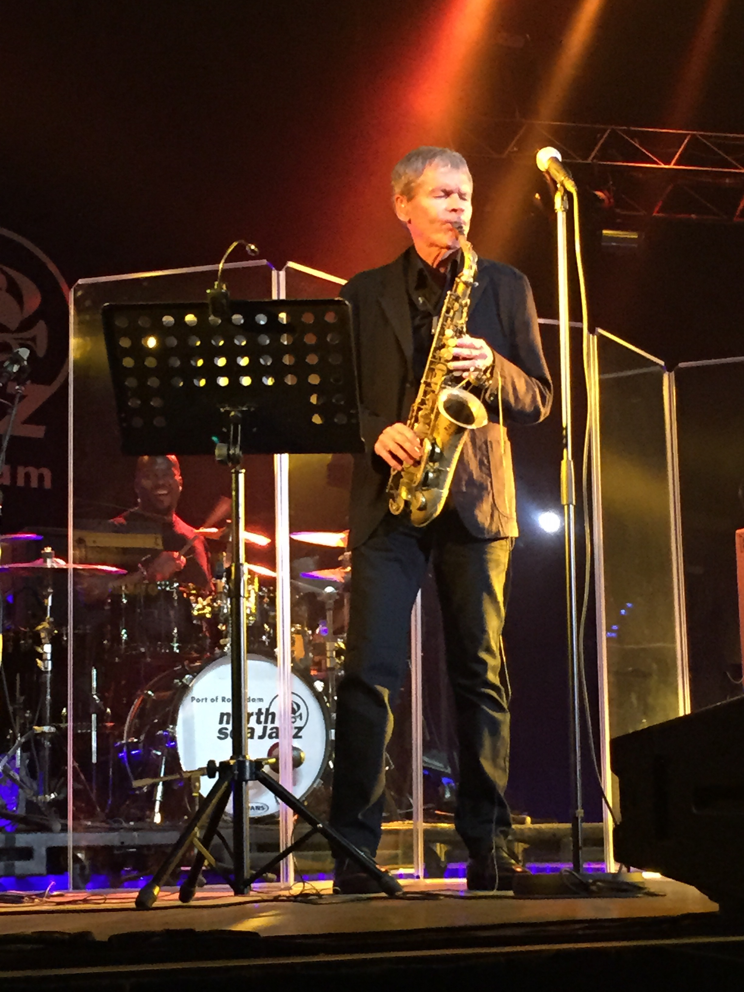 David Sanborn tijdens het North Sea Jazz Festival 2015